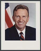 Congressman James Rogan from California's 27th district (1997-2001)